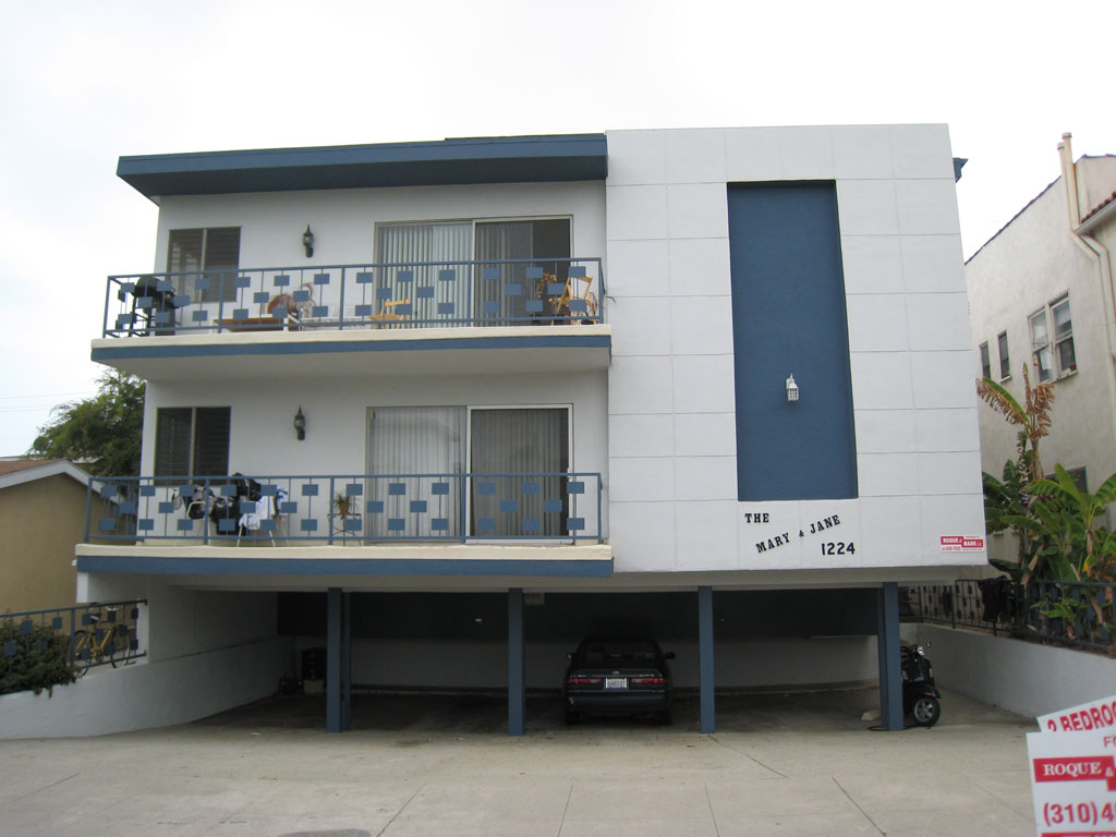 Example of a 1950s "dingbat" apartment facade. Carports in the shadowed "crawl space" below facade's features. Dingbat located just south of Wilshire Boulevard; on 12th Street, on the west-right side — in Santa Monica, Southern California.